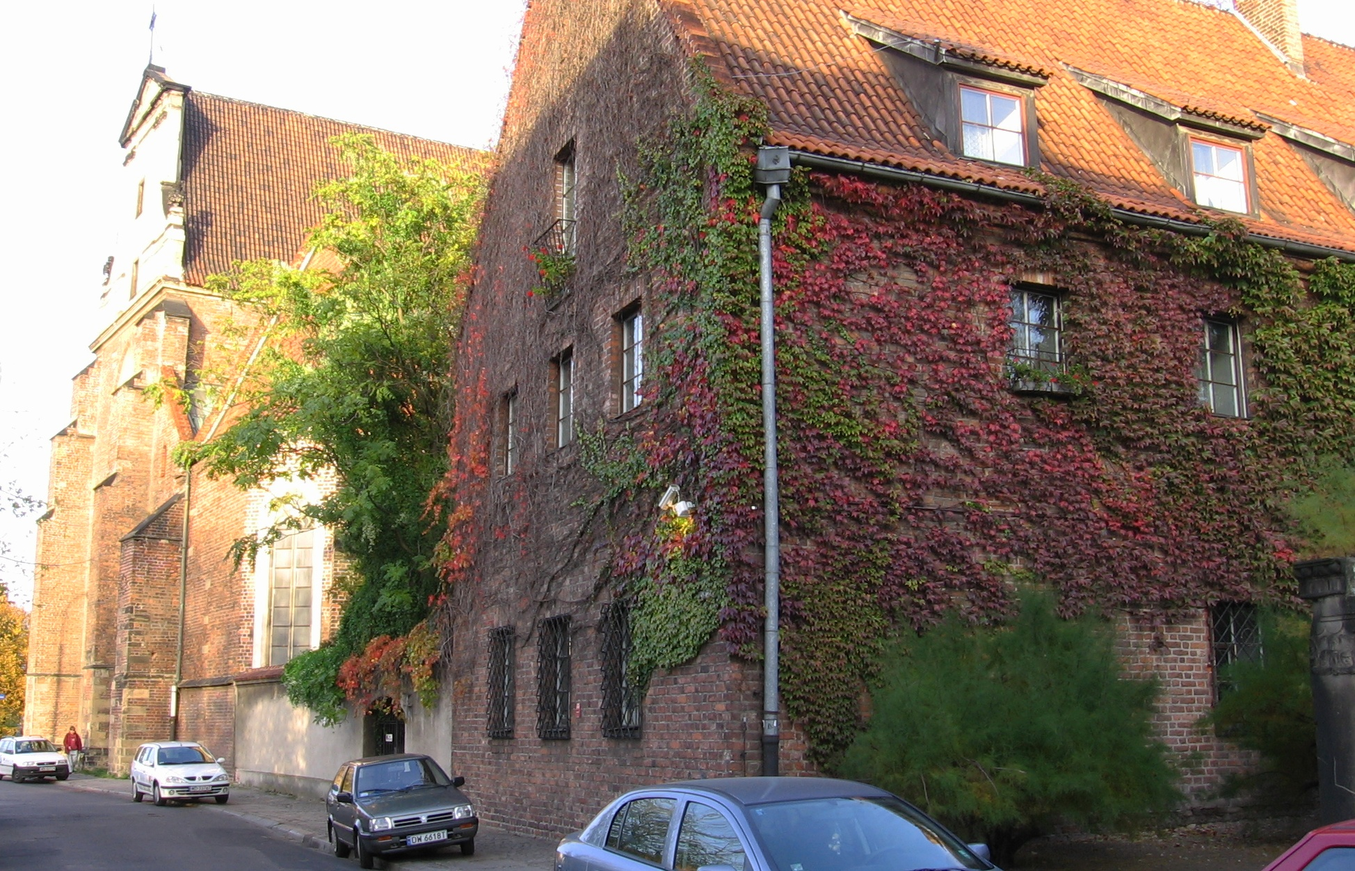 Wrocław, Poland: Architectonical Museum in former Bernardins' closter and church